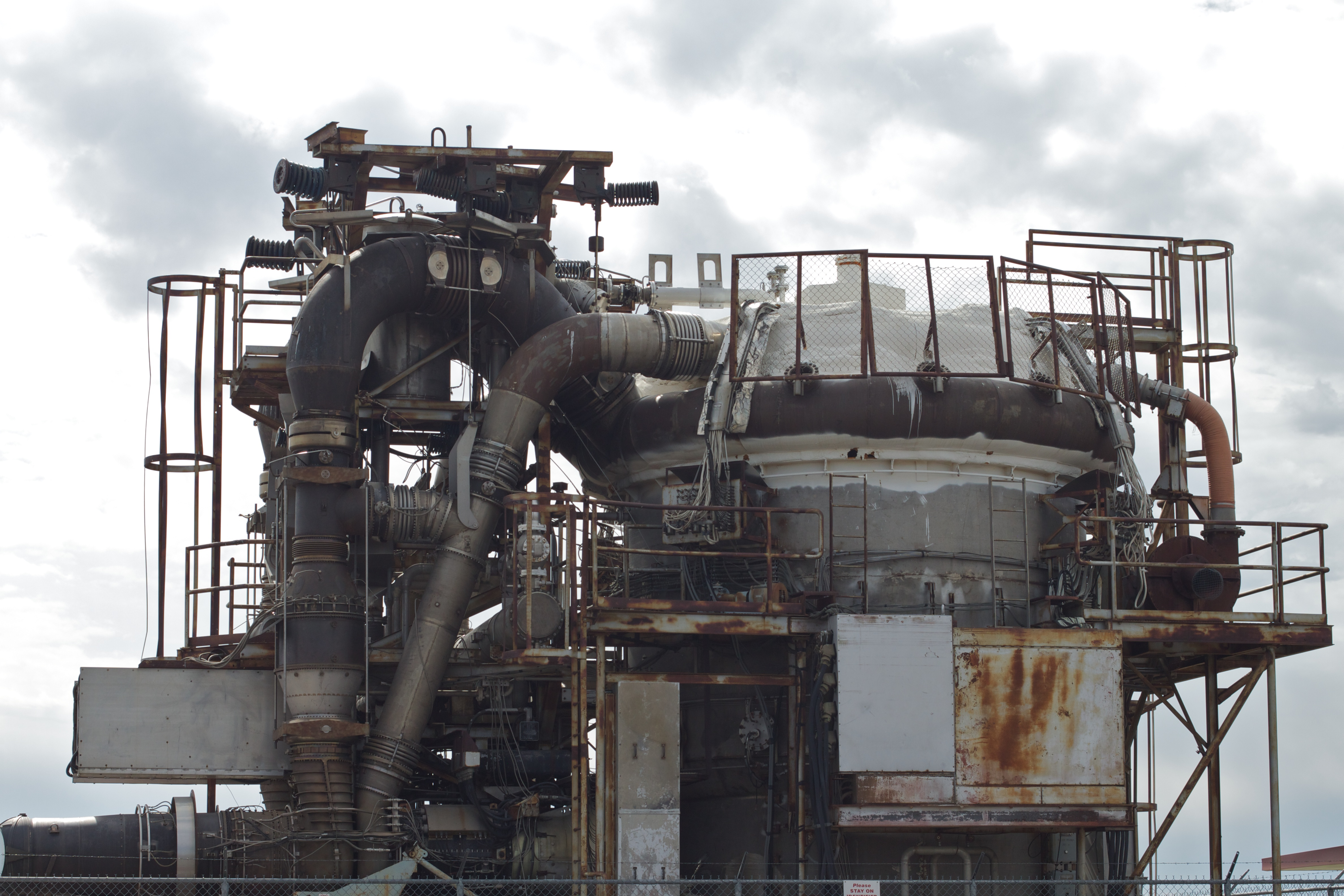 Experiments done to see if they could build a nuclear powered bomber. It did not work so well. Visit to the Experimental Breeder Reactor No. 1 (EBR-I) Atomic Museum. This was where the first generation of usable electricity by nuclear power was done back in 1951.